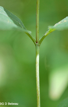 Helianthus strumosus, woodland sunflower, with a definitively smooth stem.